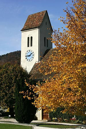 Church of Bretzwil